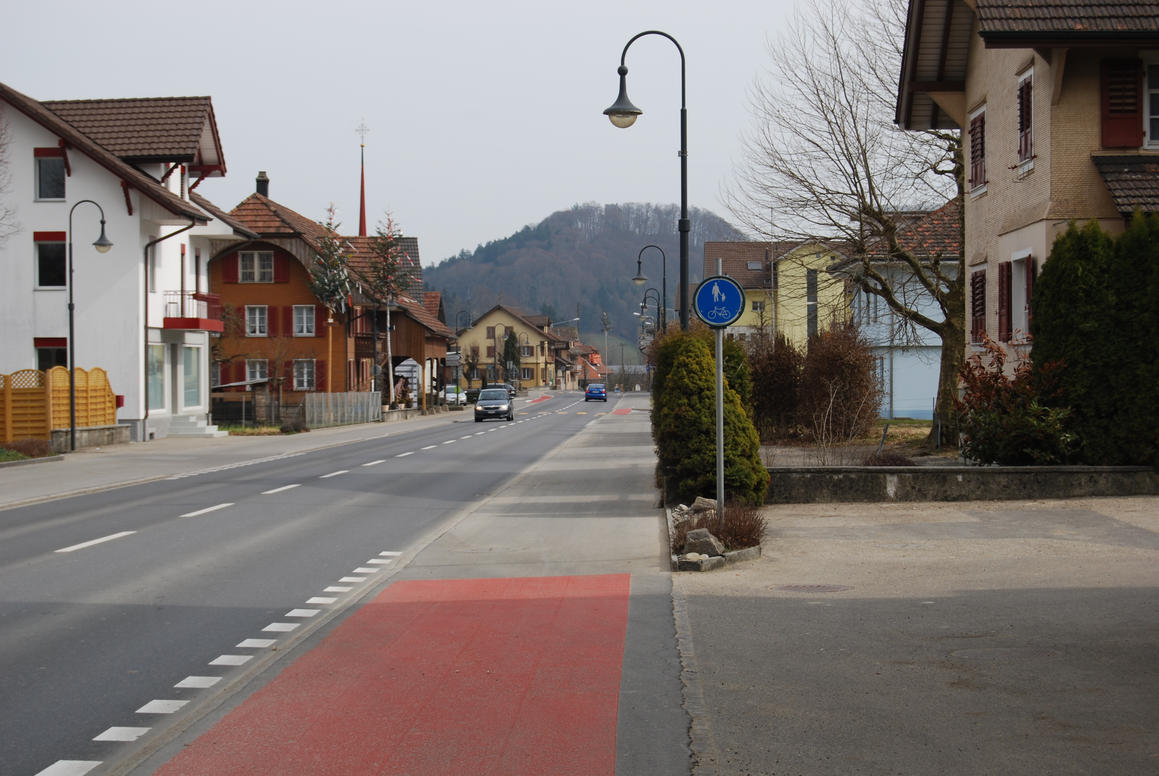 Gettnau, canton of Lucerne, SwitzerlandEsperanto: Gettnau, Kantono Lucerno, Svislando